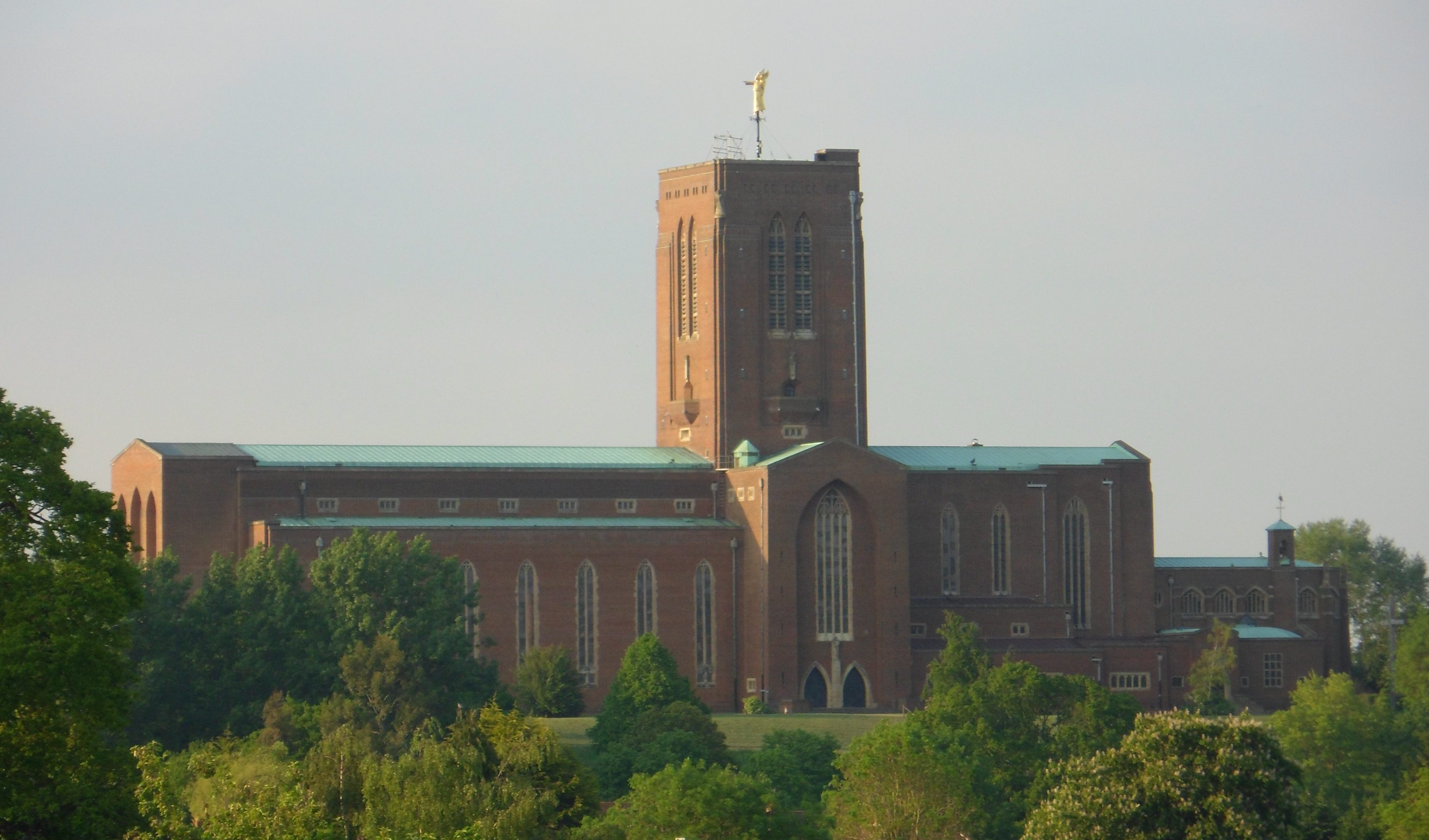 Guildford Cathedral, Stag Hill, Guildford, Borough of Guildford, Surrey, England. A long-distance view from Onslow Village.